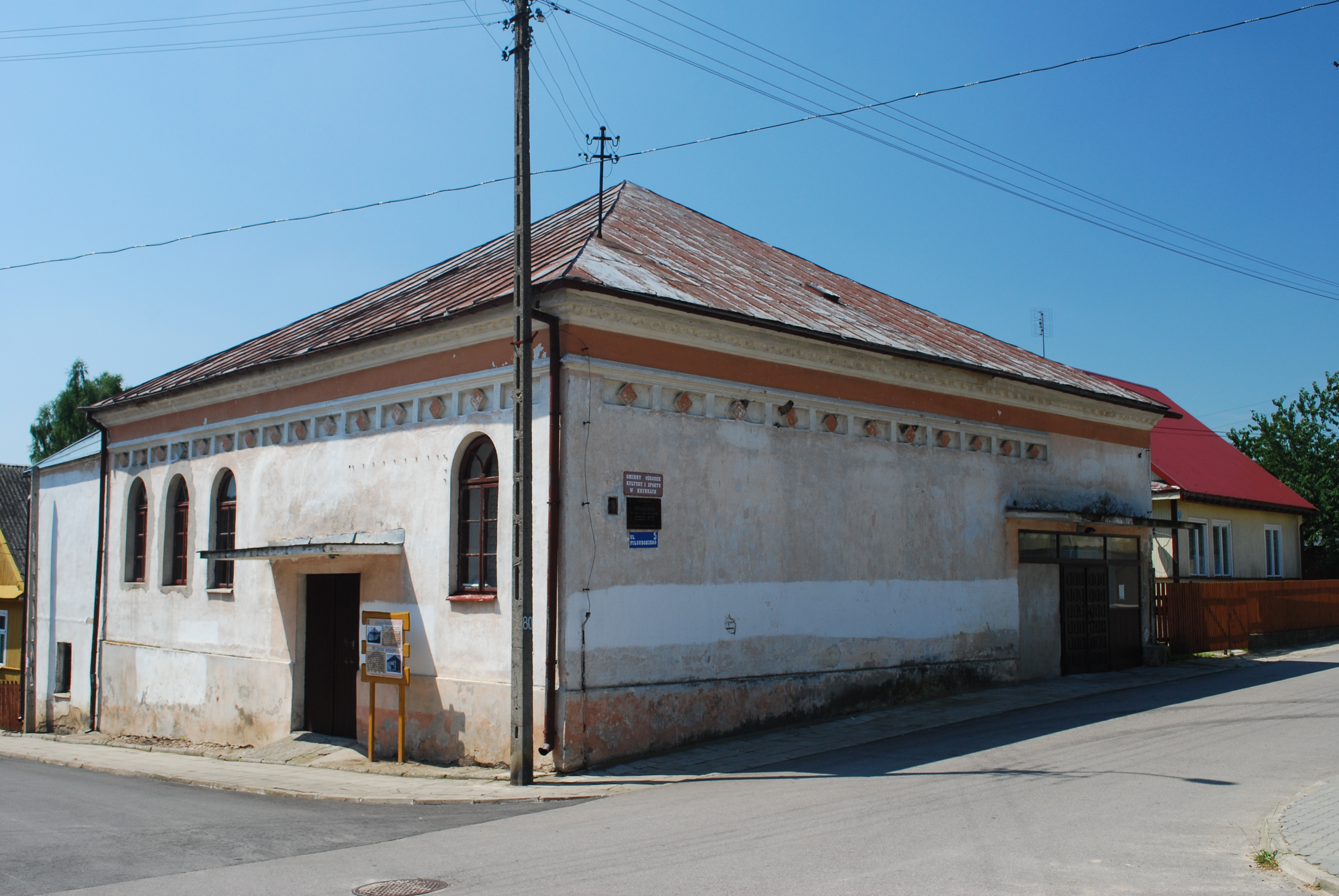 This photo from Podlaskie Voievodeship was taken during Polish Wikiexpedition 2009 set up by Wikimedia Polska Association. The making of this document was supported by Wikimedia Polska. Synagoga Kaukaska w Krynkach.